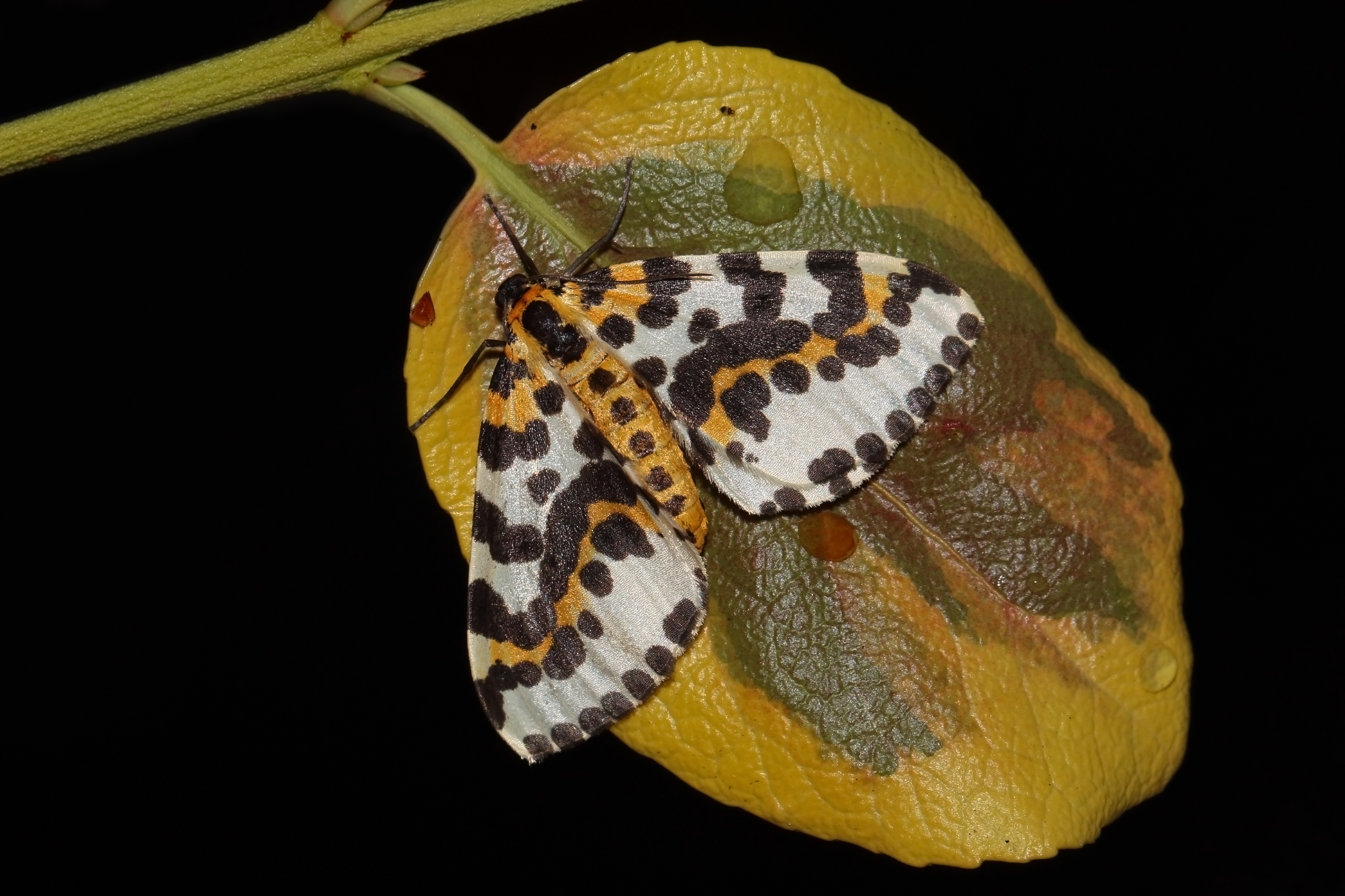 Magpie moth (Abraxas grossulariata), Cumnor Hill, Oxford